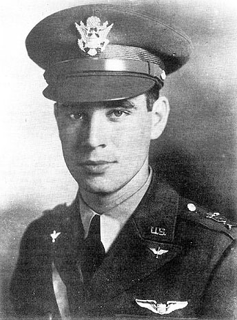 Lieutenant Colonel Boyd David "Buzz" Wagner (1916–1942), an American aviator and the first United States Army Air Corps (USAAC) fighter ace of World War II.